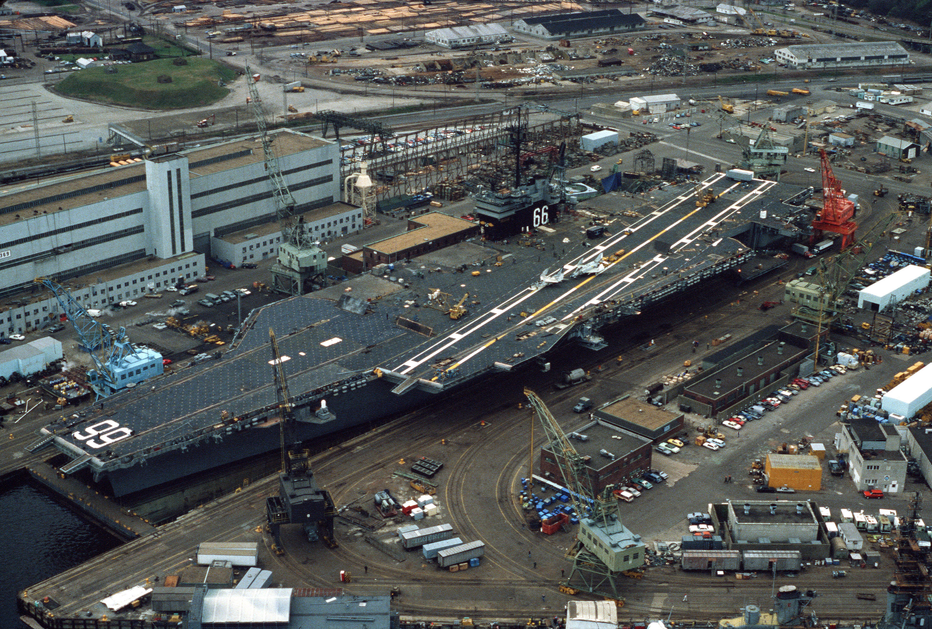 An aerial view of the U.S. Navy aircraft carrier USS America (CV-66) in dry dock at the Norfolk Naval Shipyard, Virginia (USA), on 1 June 1982.